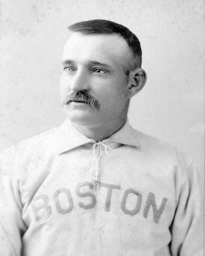 Charles Gardner "Old Hoss" Radbourne. Baseball player. Providence Grays (1881-1885), Boston Beaneaters (1886-1889), Boston Reds (1890), Cincinnati Reds (1891)